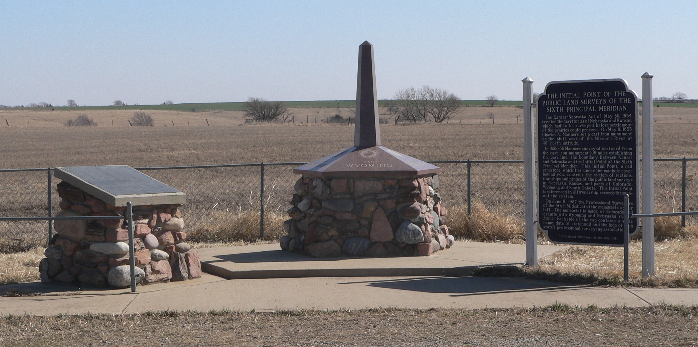 Survey monument JF00-072, located on Nebraska-Kansas state line at intersection of Nebraska counties Thayer and Jefferson and Kansas counties Washington and Republic; marking the intersection of 40 degrees north latitude and the Sixth Principal Meridian. Monuments and historical marker, seen from the west.